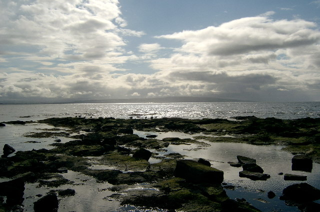 Troon, Ayrshire. Looking across South Bay towards the Heads of Ayr.